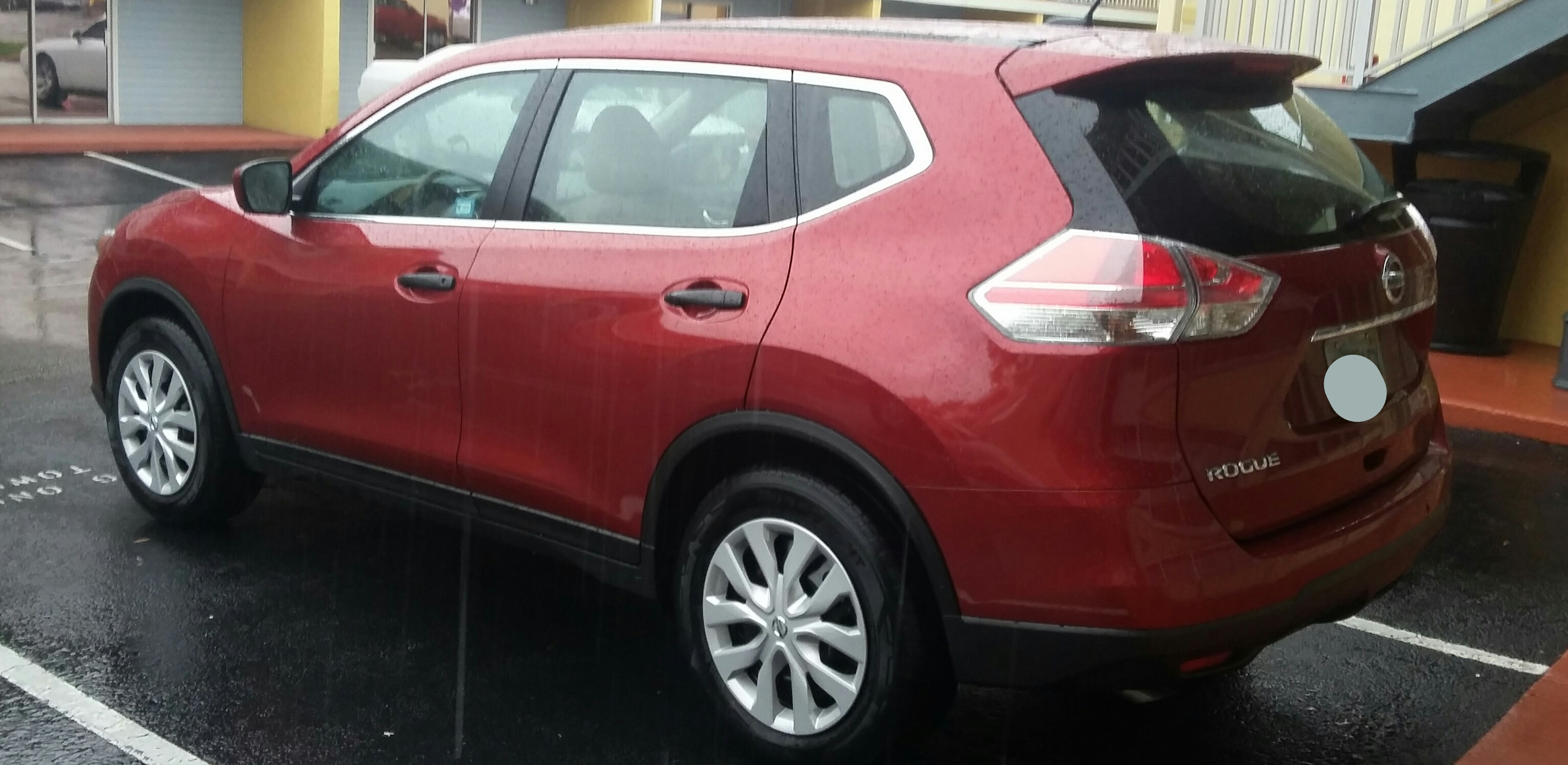 2016 Nissan Rogue photographed in Kissimmee, Florida, USA.